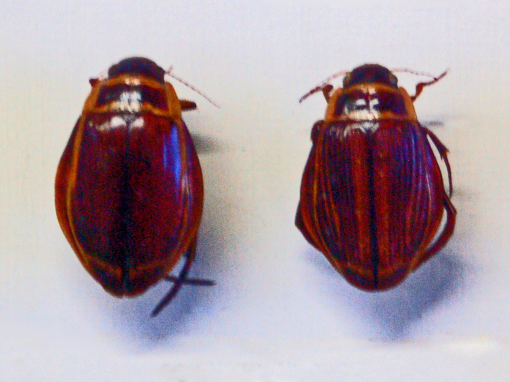 Dytiscus latissimus male ane female, at National Museum (Prague)